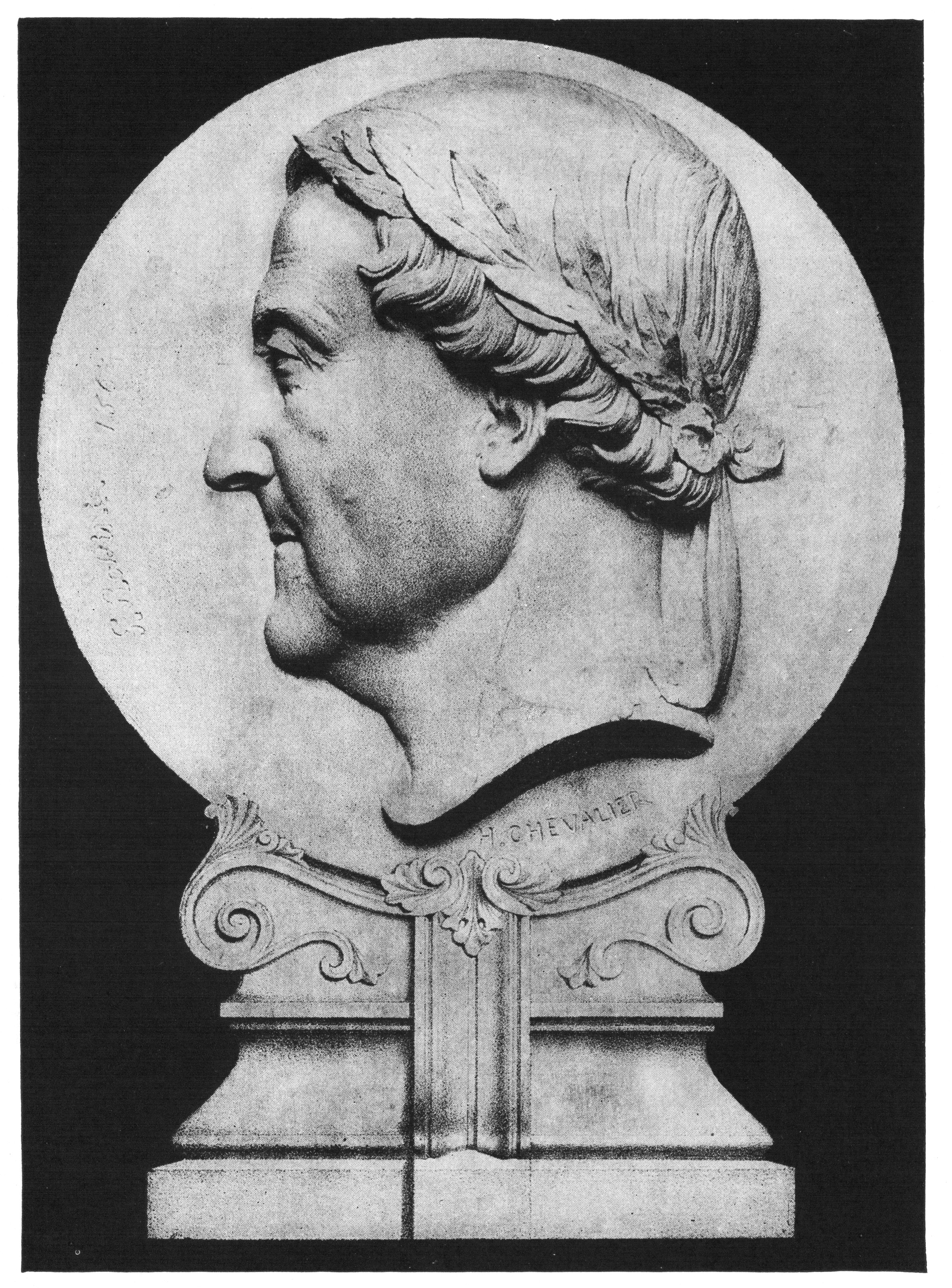 MARBLE MEDALLION OF ROSSINI, BY H. CHEVALIER. Made by order of the Minister of Fine Arts for the Foyer of the Paris Opera House. Exhibited at the Paris Salon of 1865.